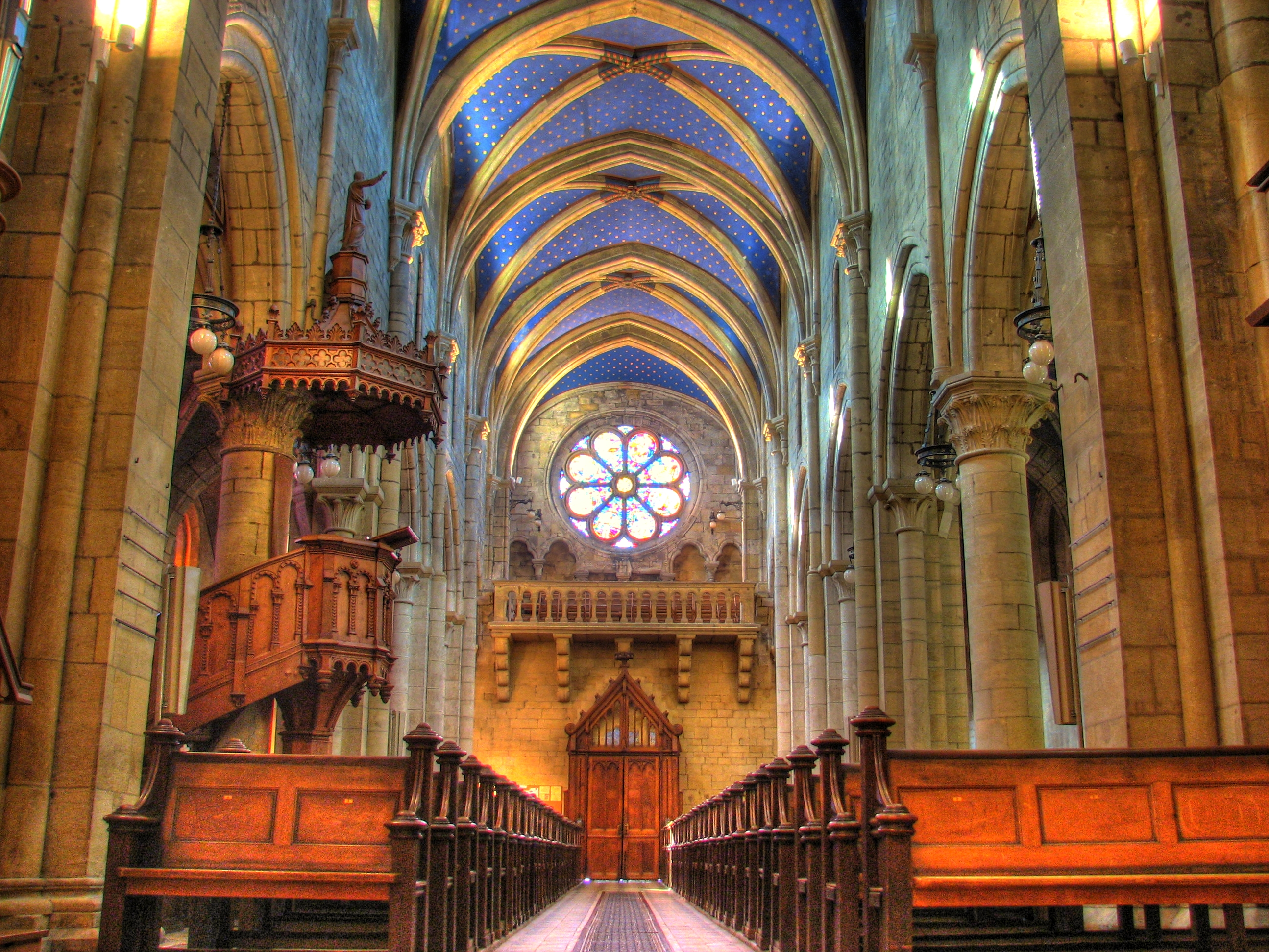 Interior of "collégiale de Neuchâtel"